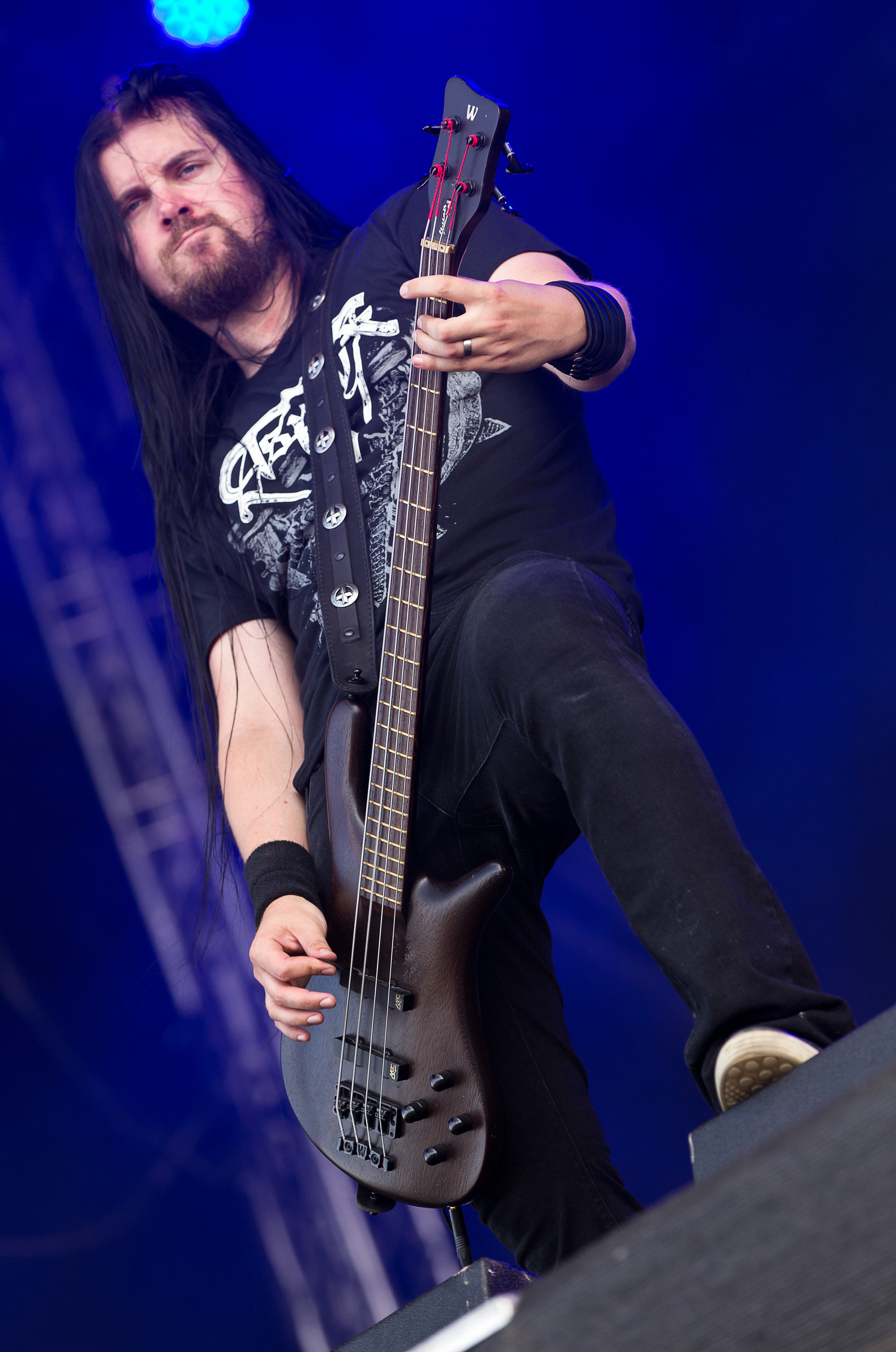 The Swedish death metal band Entombed A.D. at the Rockharz Open Air 2016 in Ballenstedt/Germany.